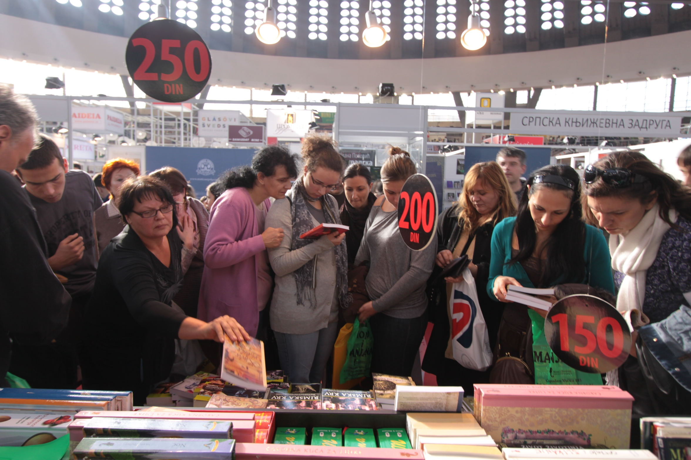 A view from one of the counters.